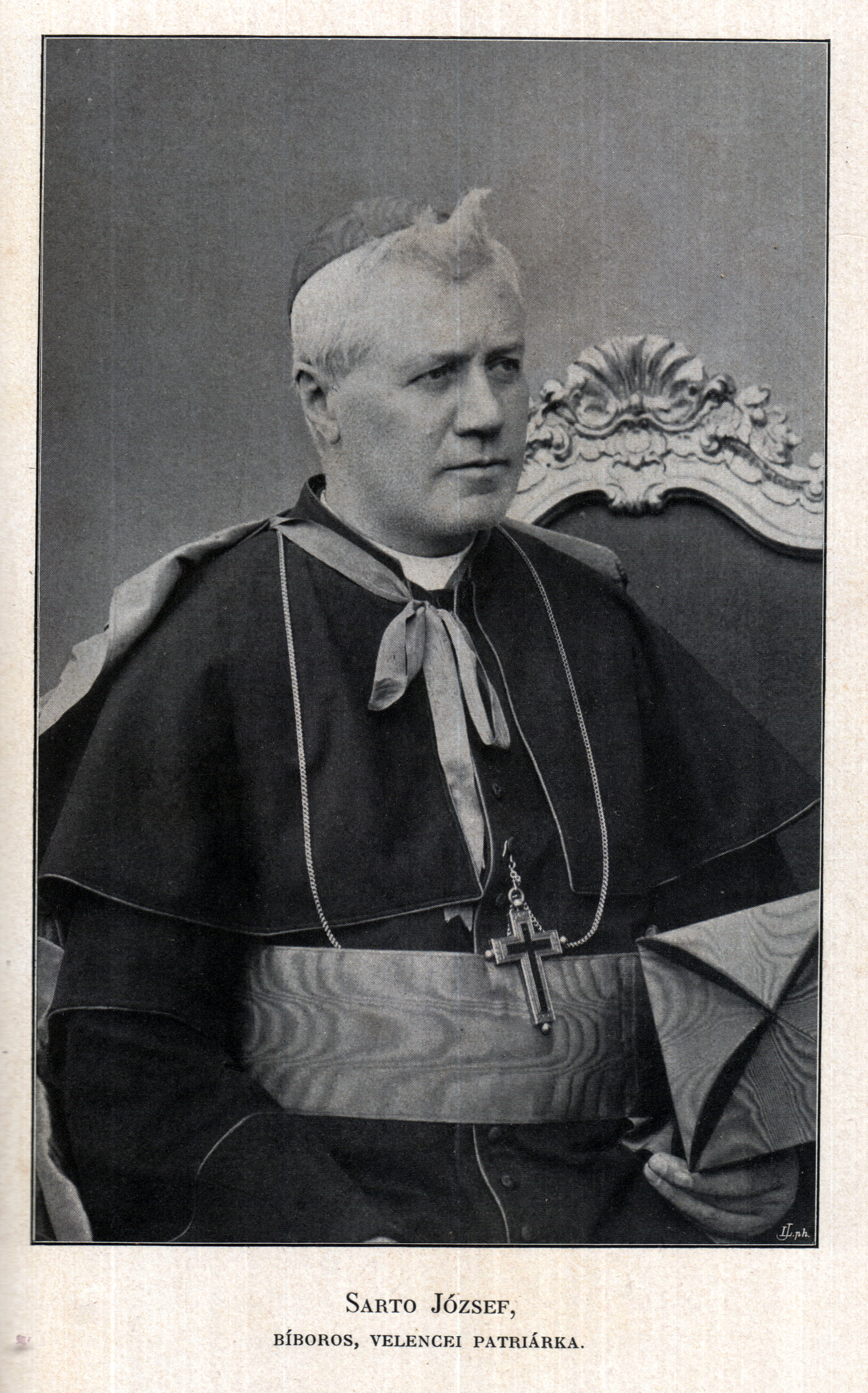 Photo of Giuseppe Sarto in 1900, as patriarch of Venezia, later Pope Pius X